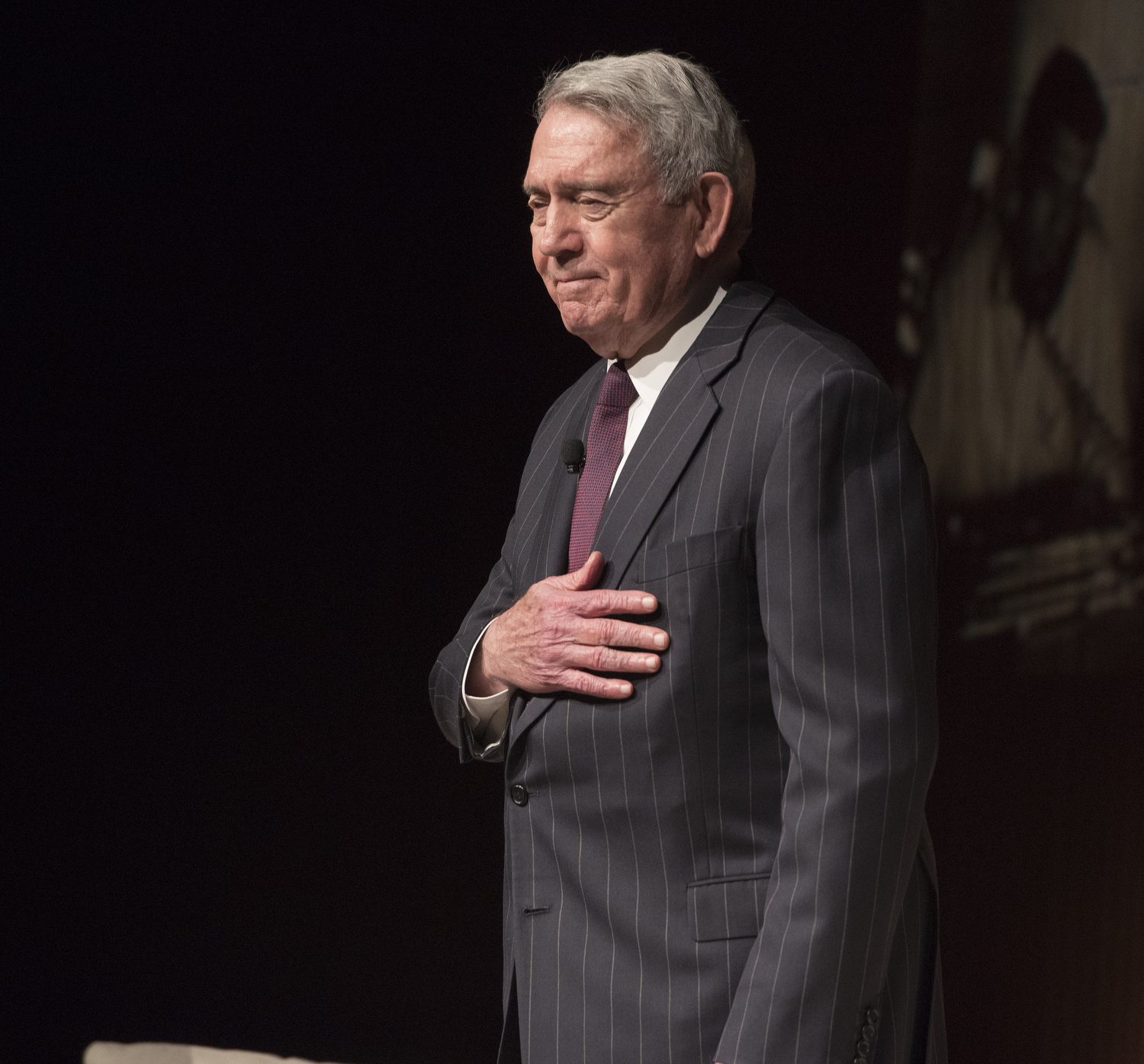 On Tuesday evening November 1st, 2016, veteran journalist Dan Rather joined Friends of the LBJ Library members to speak about his remarkable career spanning six decades in print, radio, and television news. Rather, a native Texan, has covered almost every major news event since the 1960s, including President John F. Kennedy’s assassination, the U.S. civil rights movement, the Vietnam War, the Watergate scandal, the fall of the Berlin Wall, and the 9/11 terrorist attacks. He was anchor and managing editor of the CBS Evening News for 24 years. He now serves as president and CEO of News and Guts, an independent production company. The evening was co-hosted by the Dolph Briscoe Center for American History at the University of Texas at Austin.